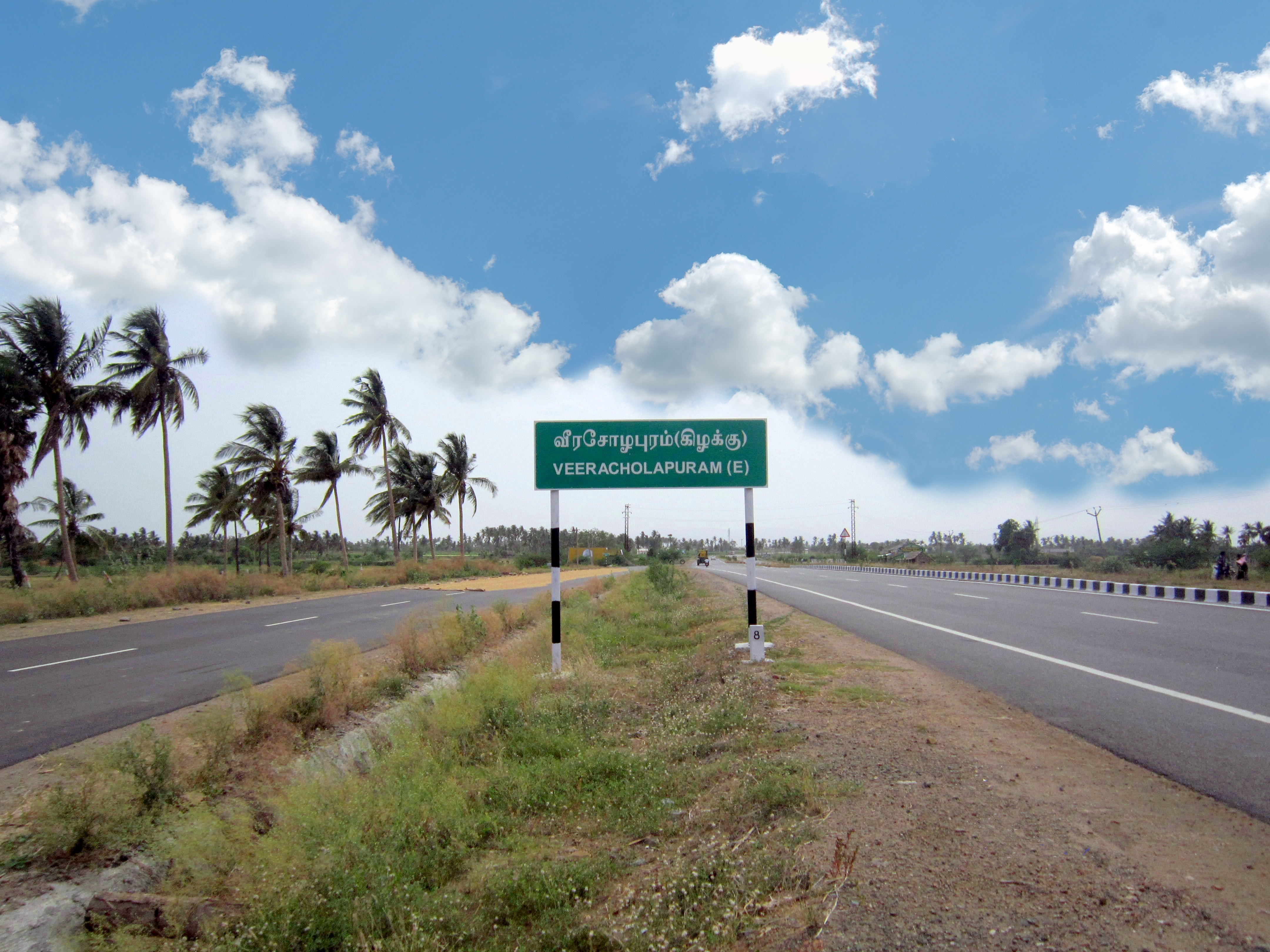 This is an image of Veerasolapuram village by sudhan